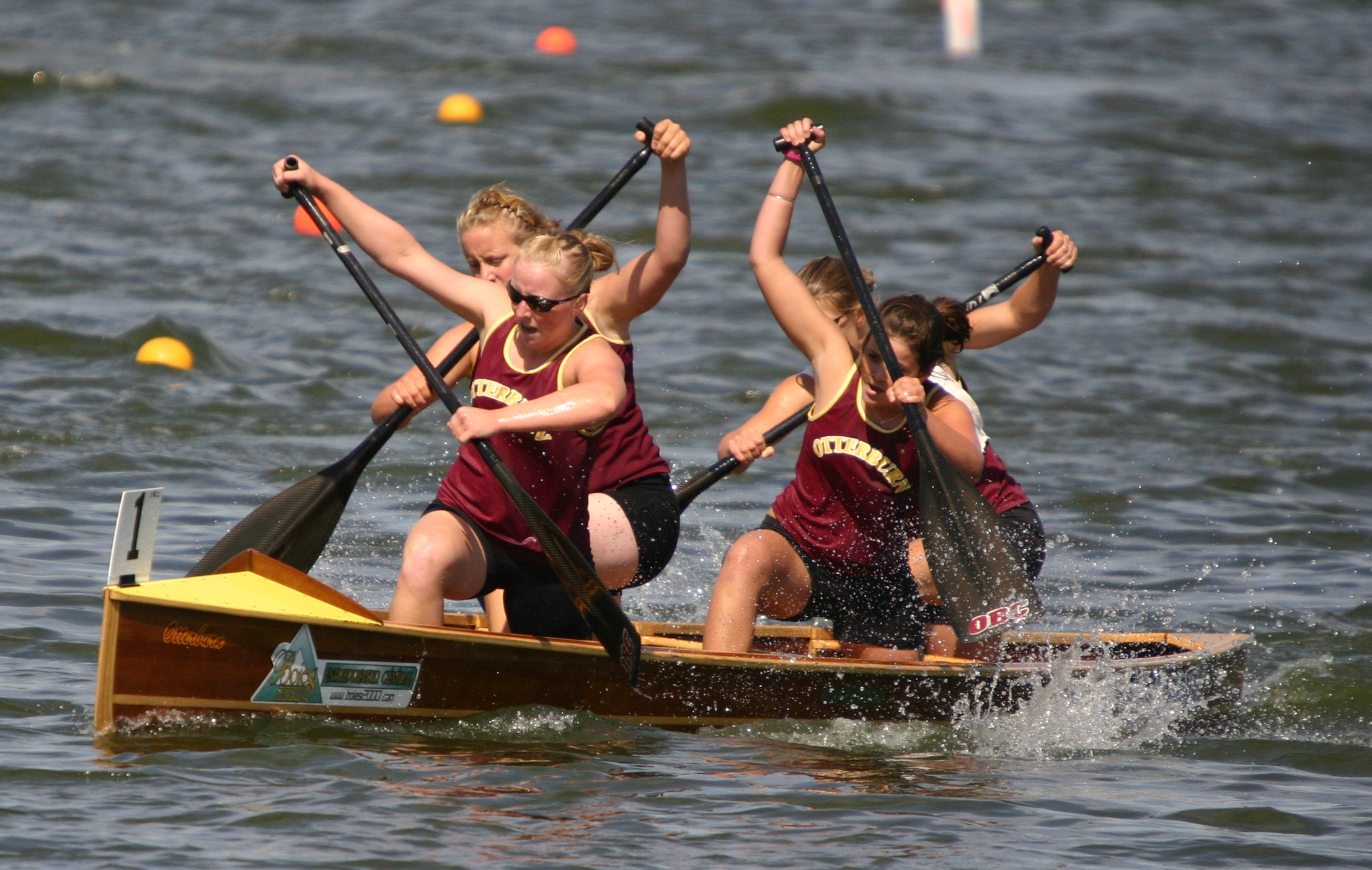 Sprint canoeing, canadian c-4. Team of the Boating Club de Canotage Otterburn, of Otterburn Park, Quebec